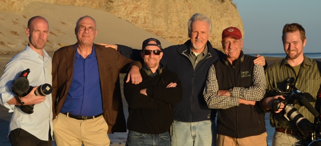 James Cameron gathers with his crew at the beginning of production of Years of Living Dangerously Season 1